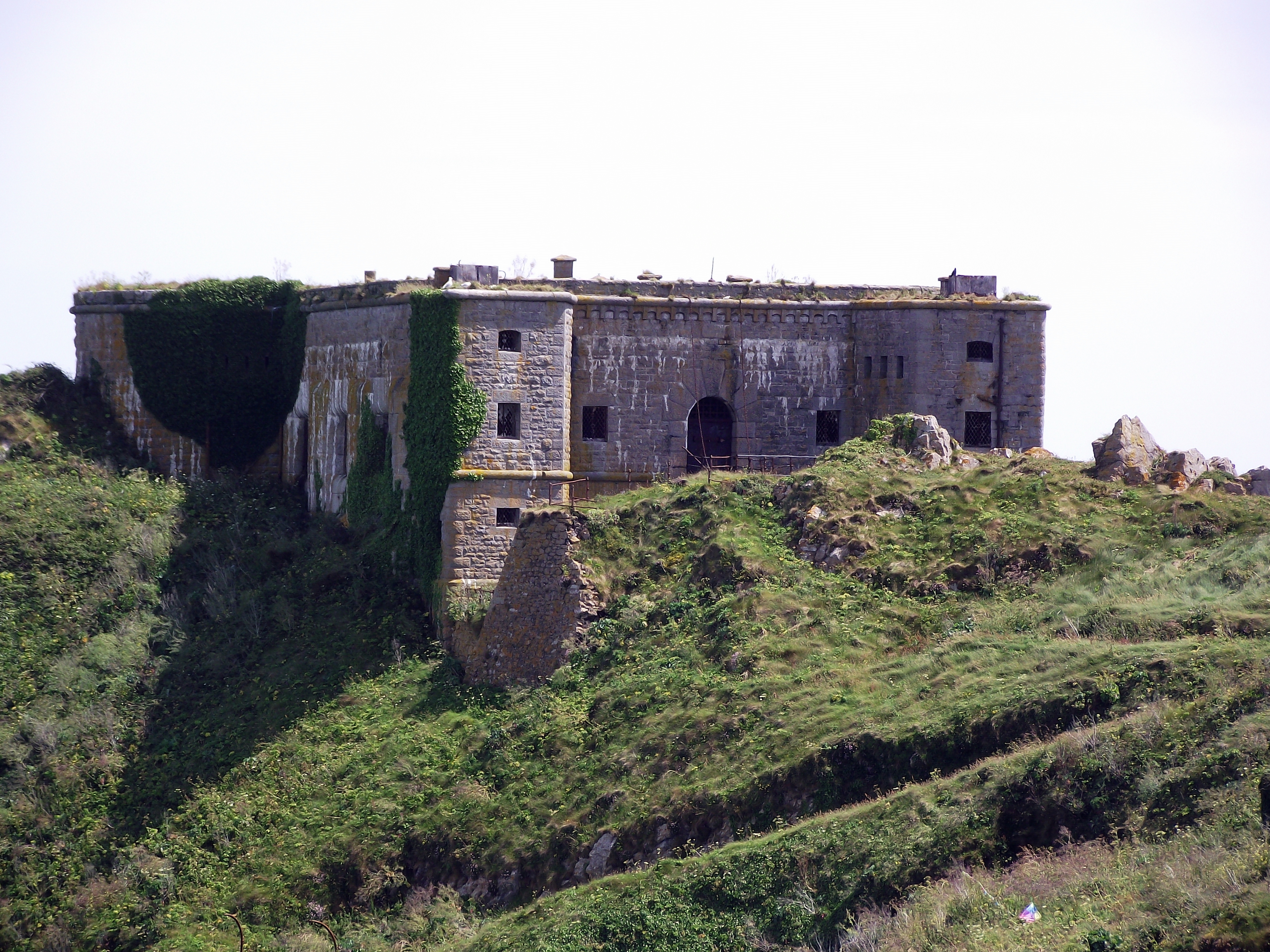 St Catherine's Fort, St Catherine's Island, Tenby, Wales, UK.